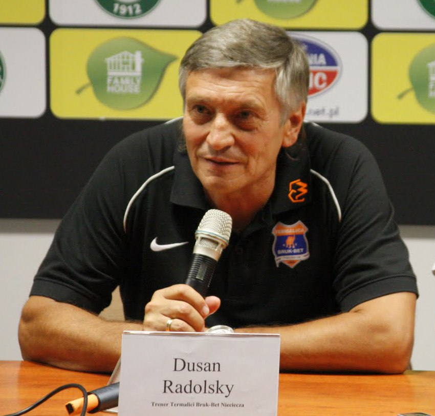 Slovak football coach Dušan Radolský